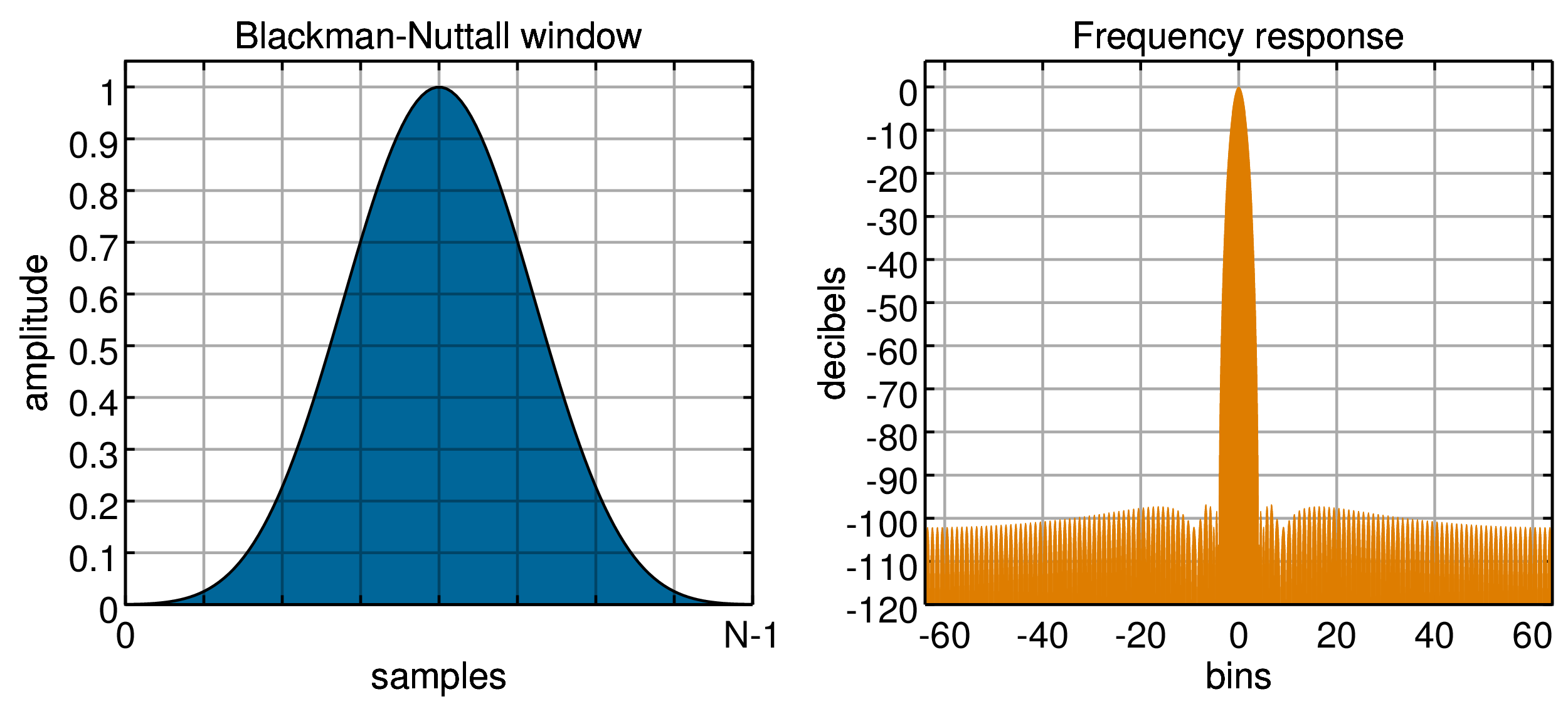 Blackman-Nuttall window and frequency response